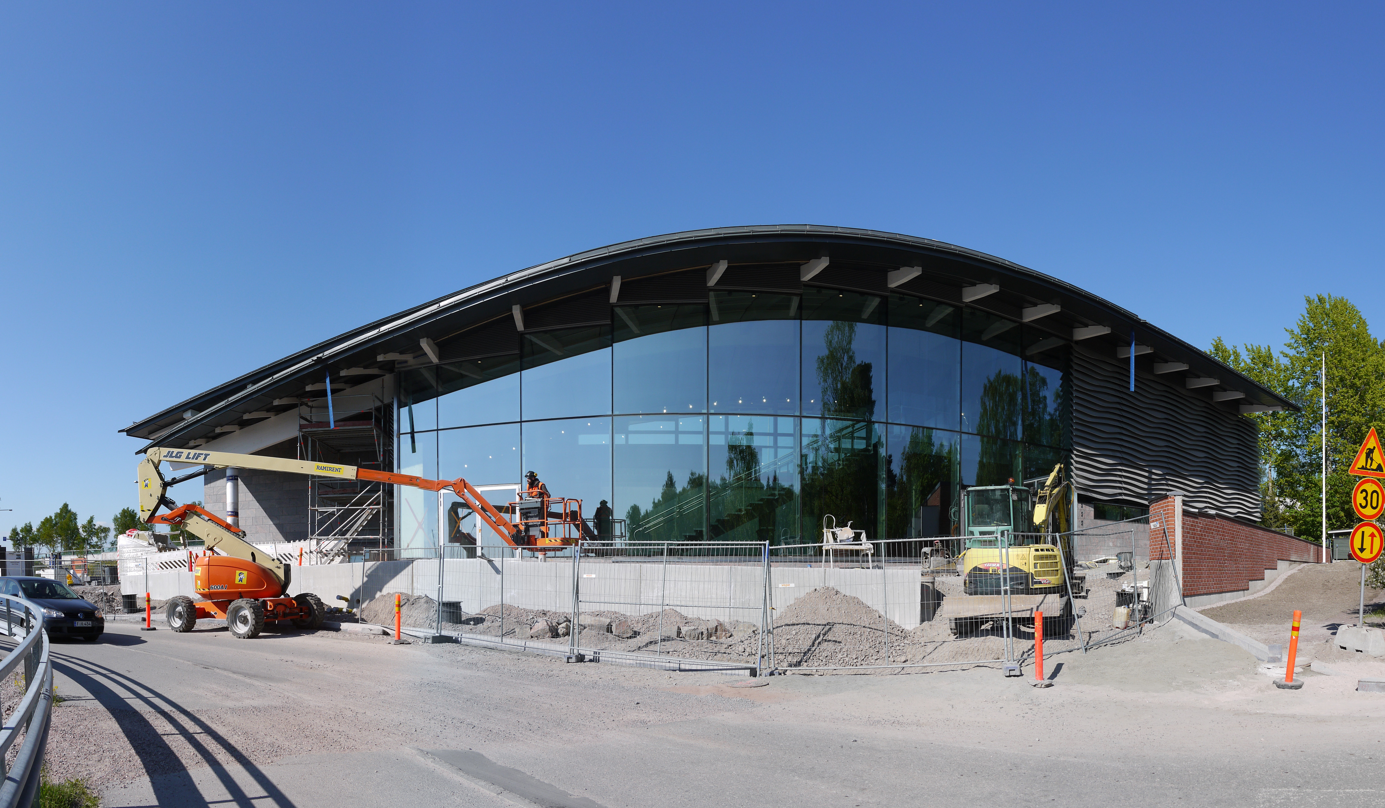 Koivusaari metro station's eastern entrance in May 2016.